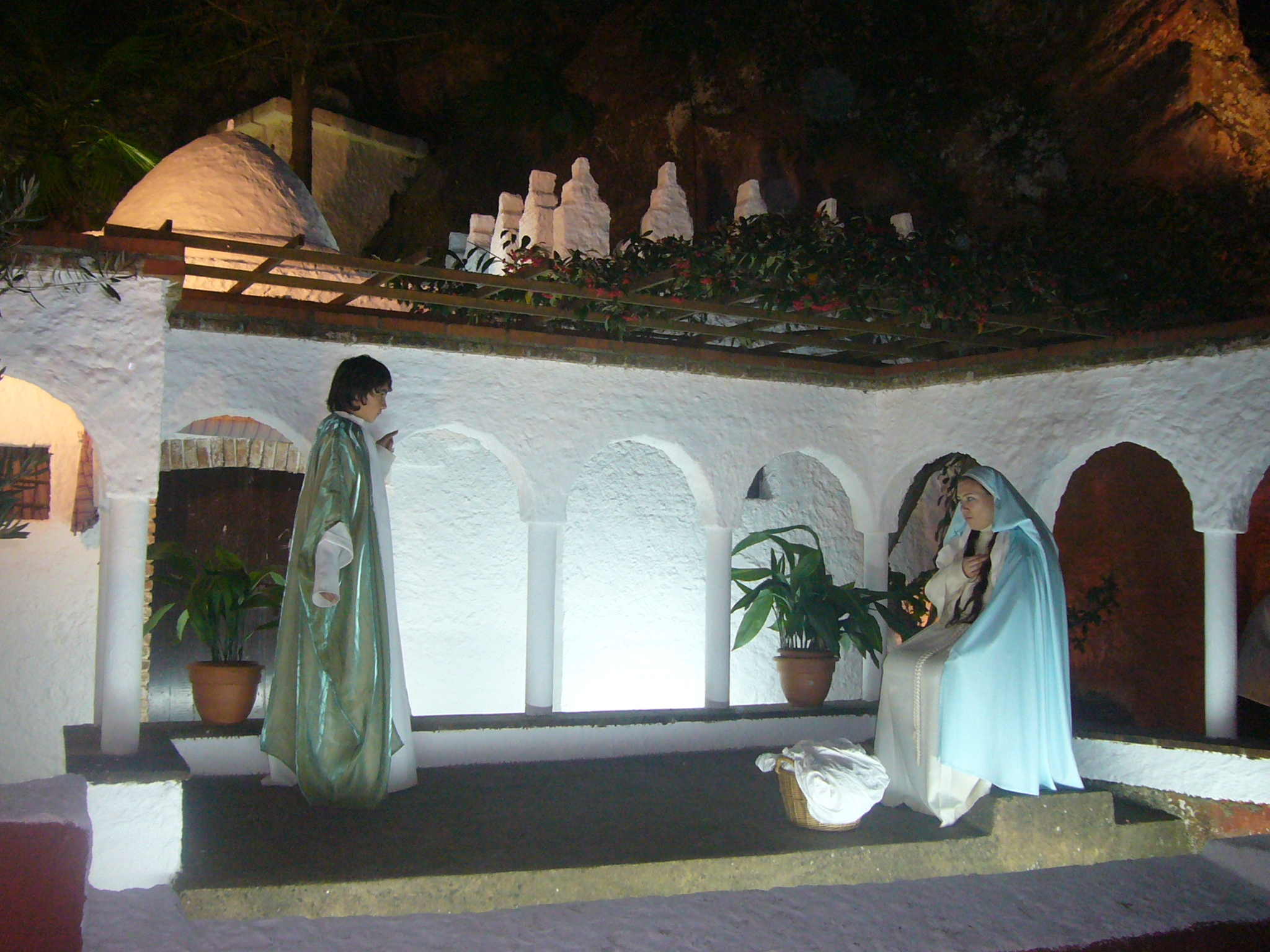 Pessebre Vivent de Corbera de Llobregat. Living scene of the Annunciation to Mary.